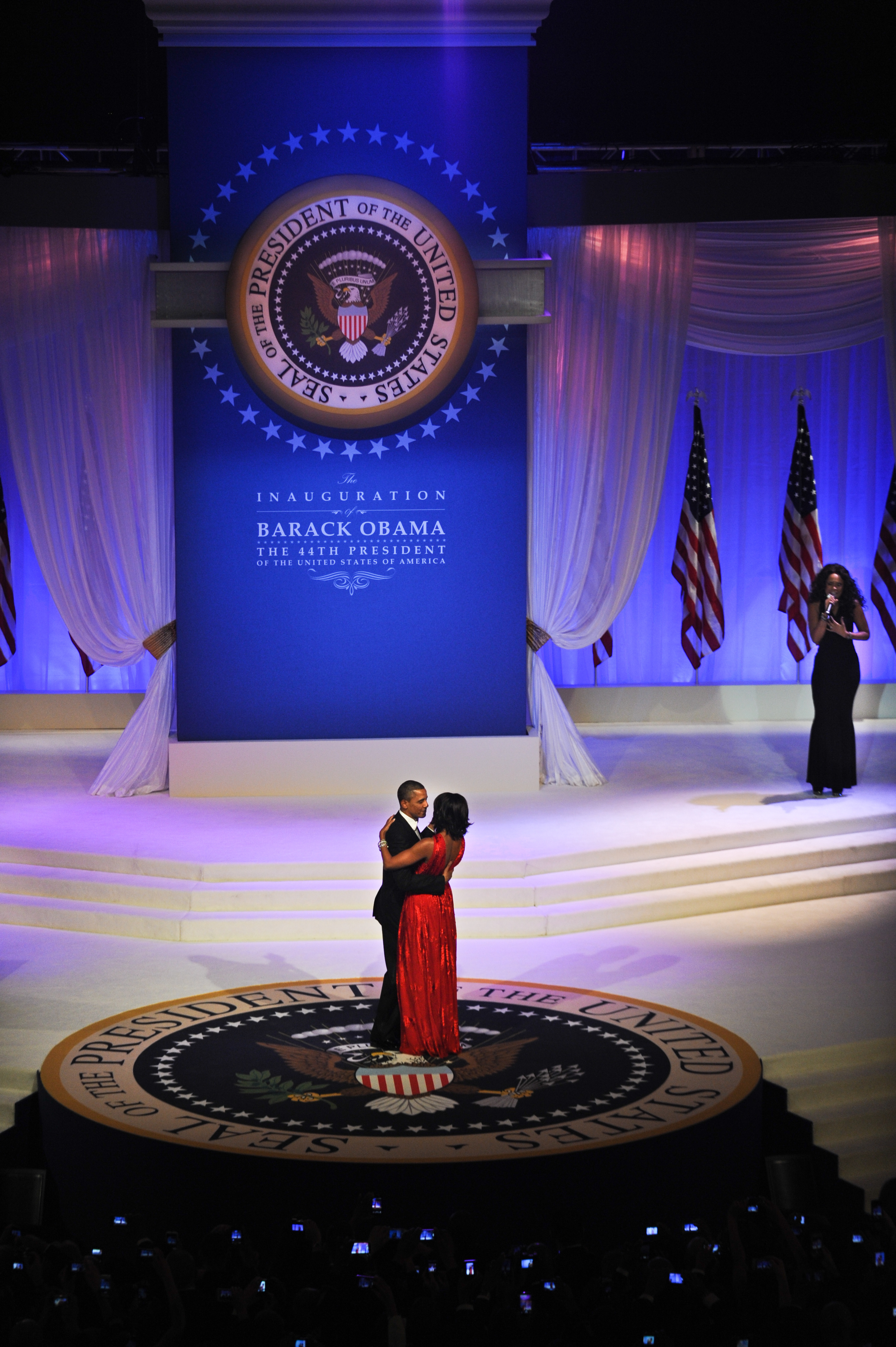 President Barack Obama dances with his wife and first lady of the United States, Michelle Obama, while Jennifer Hudson serenades them during the 2013 Commander in Chief inaugural ball at the Walter E. Washington Convention Center in Washington, Jan. 21, 2013. Throughout the 57th Presidential Inauguration, the Obama and Biden families have taken the opportunity to highlight the spirit of service and selflessness seen everyday U.S. military men, women and their families. (U.S. Air FOrce photo by Chief Master Sgt. Robert W. Valenca/Released)